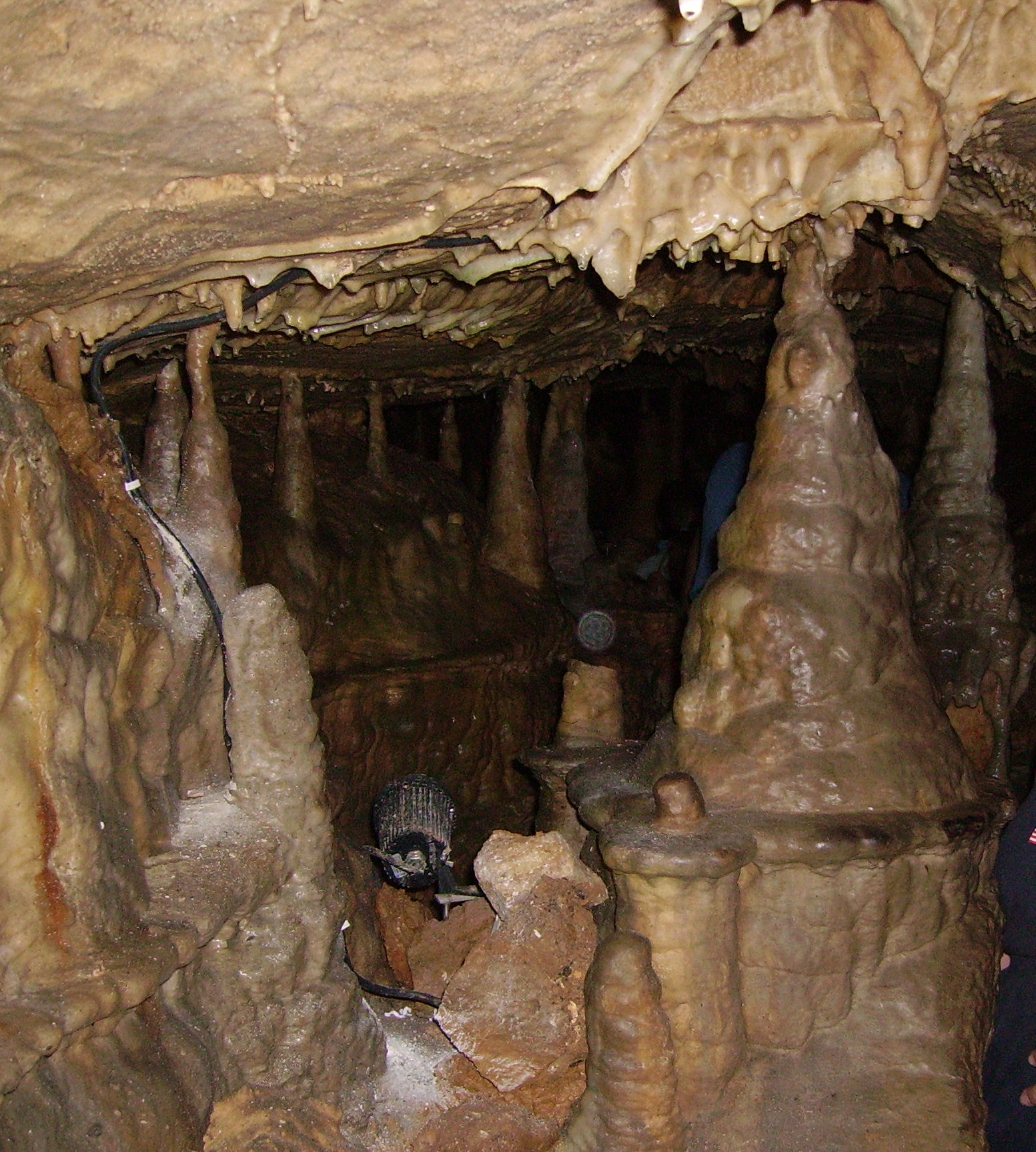 Description: Binghöhle at Streitberg in Franconia (Germany) Source: own photography Date: August 2005 Author: --Immanuel Giel 12:02, 13 September 2005 (UTC) Other versions: none